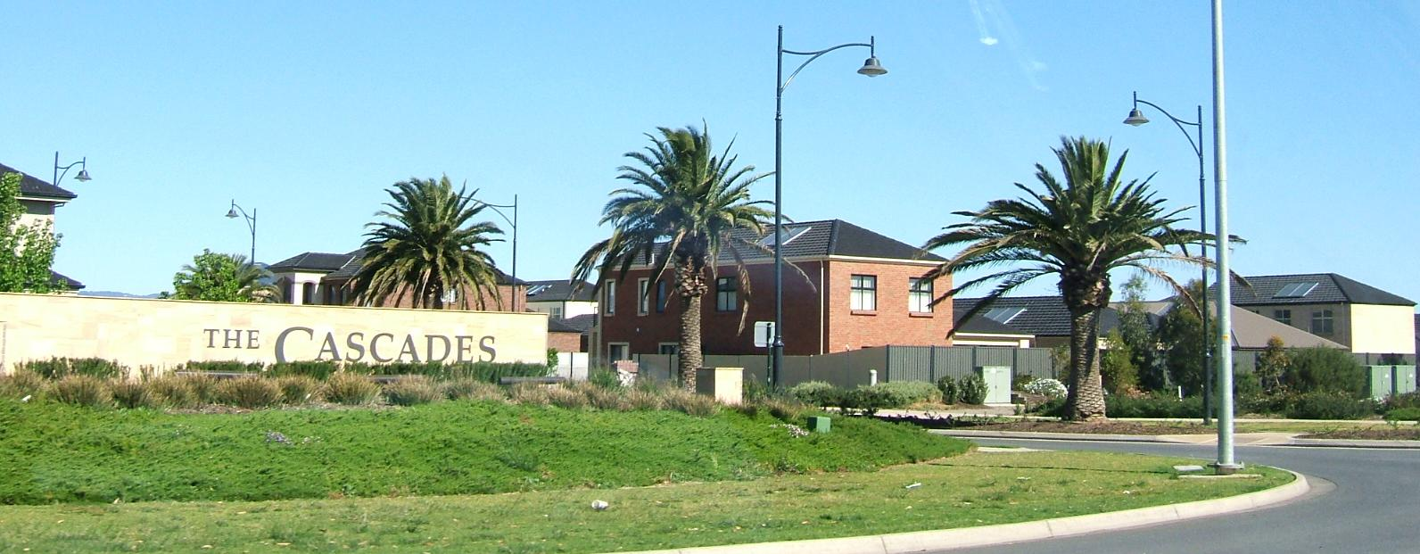 Landscape at Mawson Lakes, South Australia